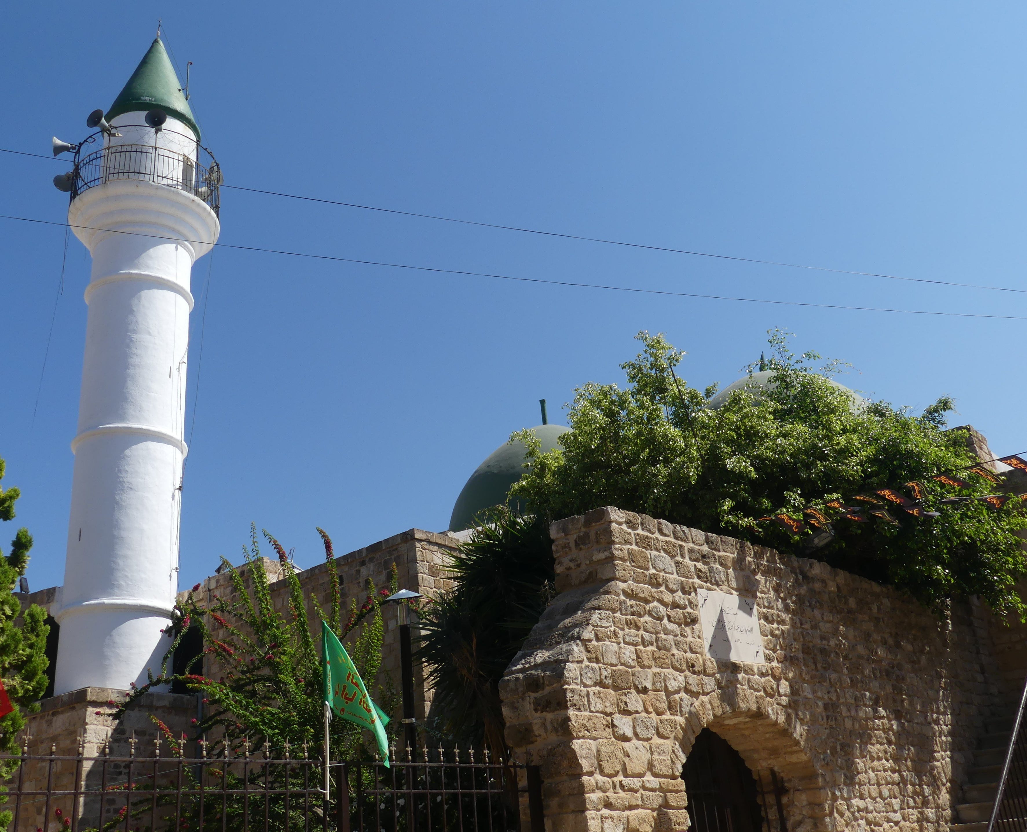 The Abdul Hussein Mosque of Tyre/Sour, Southern Lebanon, constructed in 1928 and named after Sayed Abdul Hussein Sharafeddin (1872-1957), who as the Shiite Imam of the city was a social reformer.